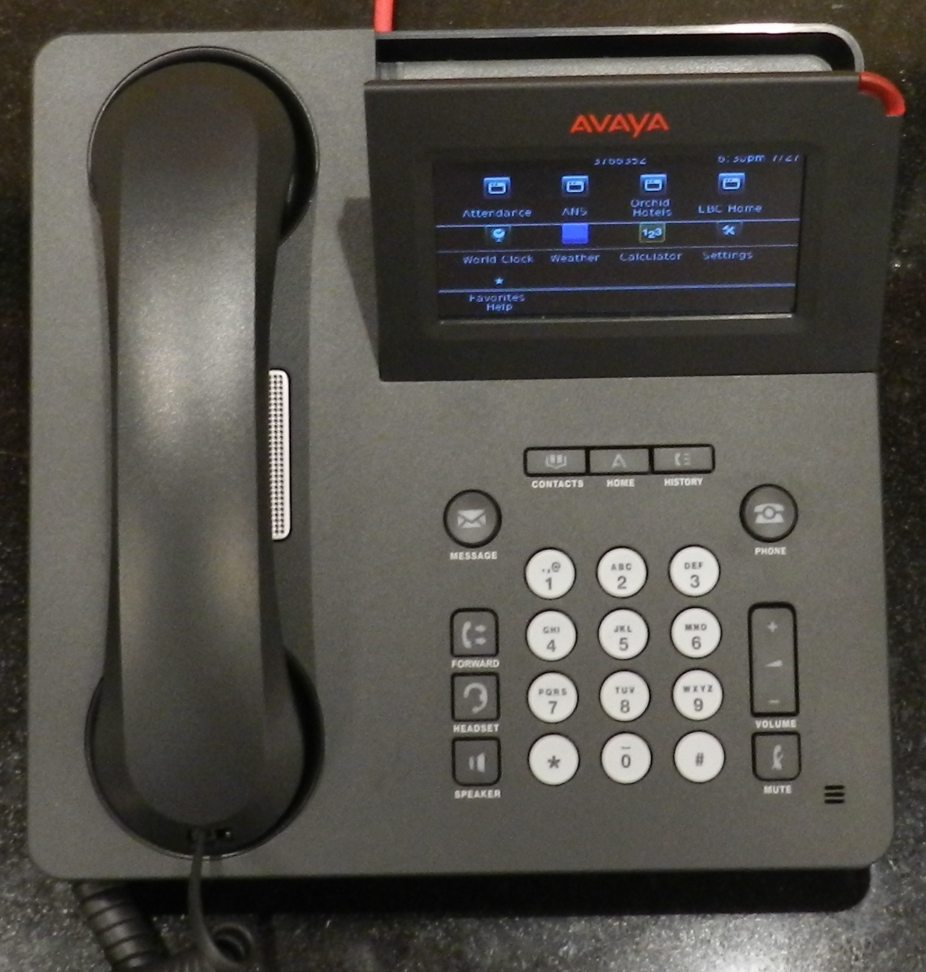 Picture of the Avaya 9621 IP Deskphone